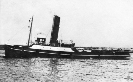 Port side of the tug Wato before she was requisitioned for the Royal Australian Navy. JT Eltringham & Co of South Shields, County Durham, built her in 1904, and she was owned by the Adelaide Steam Tug Co.